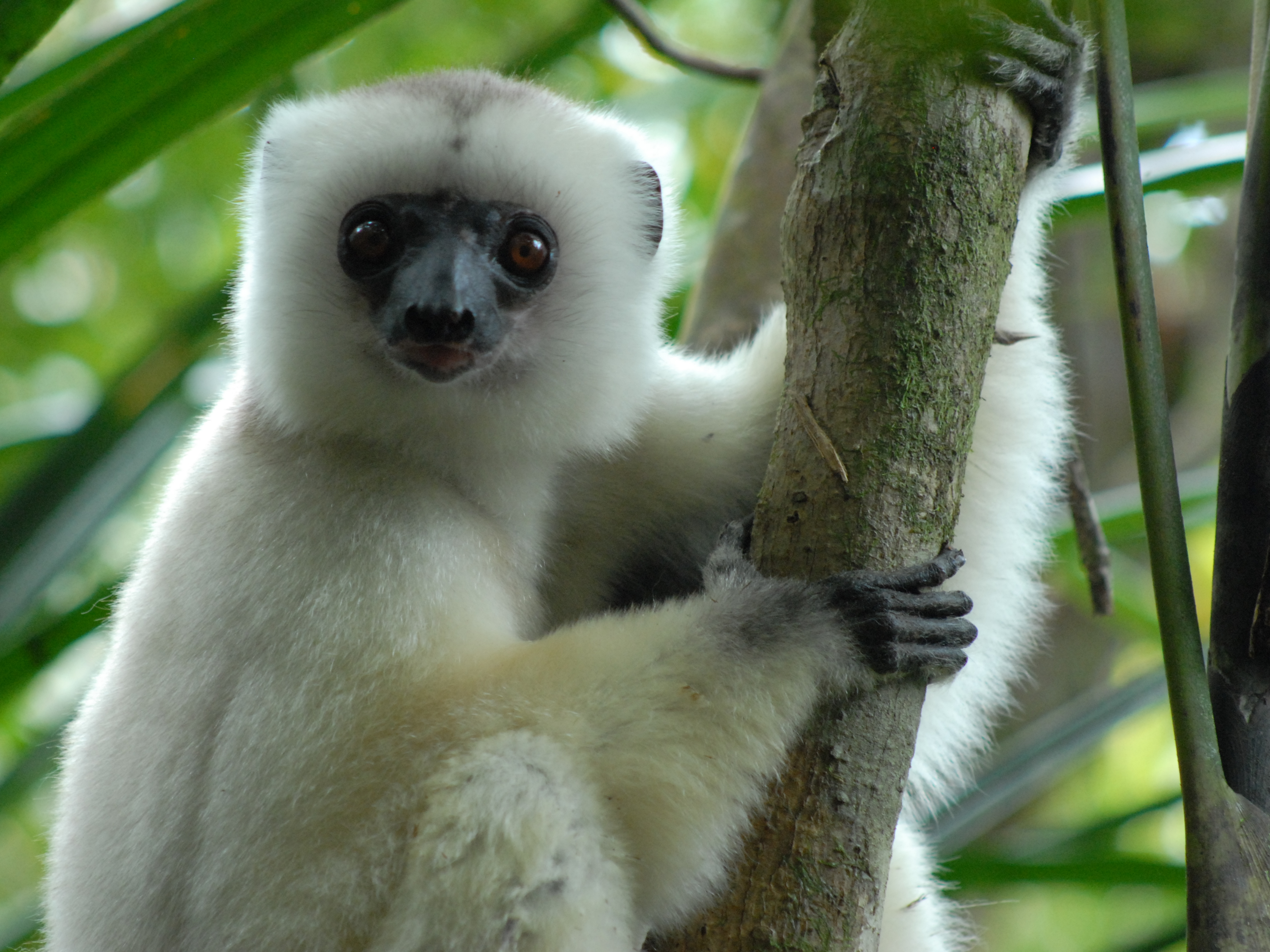 Silky Sifaka (Propithecus candidus)